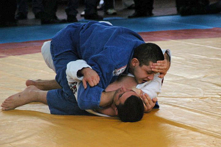 brazilian jiu jitsu